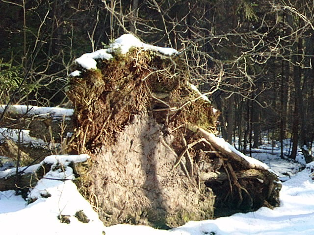 Windthrows in Białowieża Forest, near river Łutownia (2001)